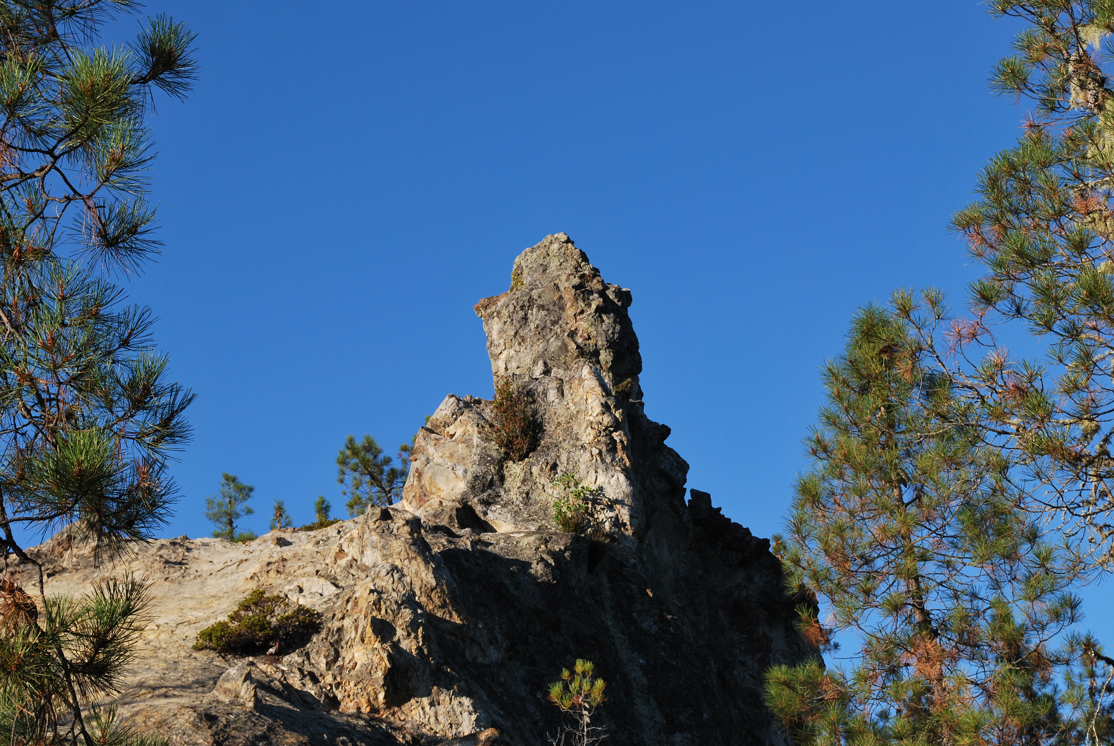 Buzzard's Roost at Big Basin Redwoods State Park, Santa Cruz Mountains. Trees are Pinus attenuata.